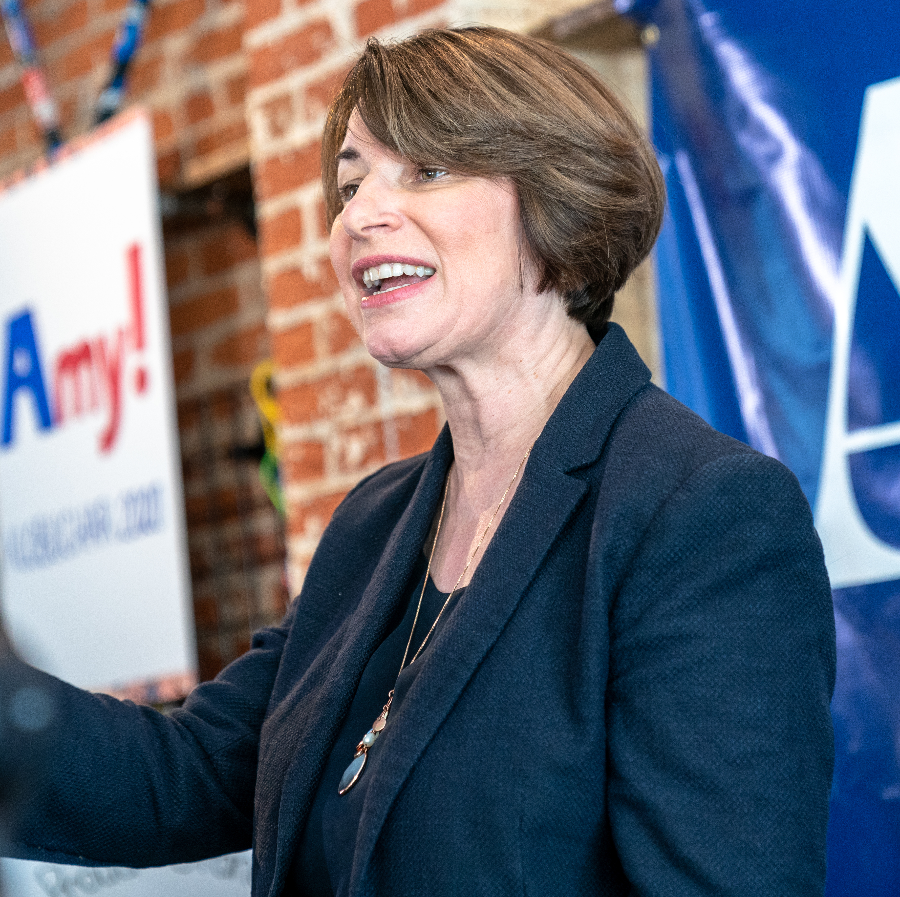 Senator Amy Klobuchar talks with supporters at Shift Cyclery and Coffee Bar in Eau Claire, Wisconsin